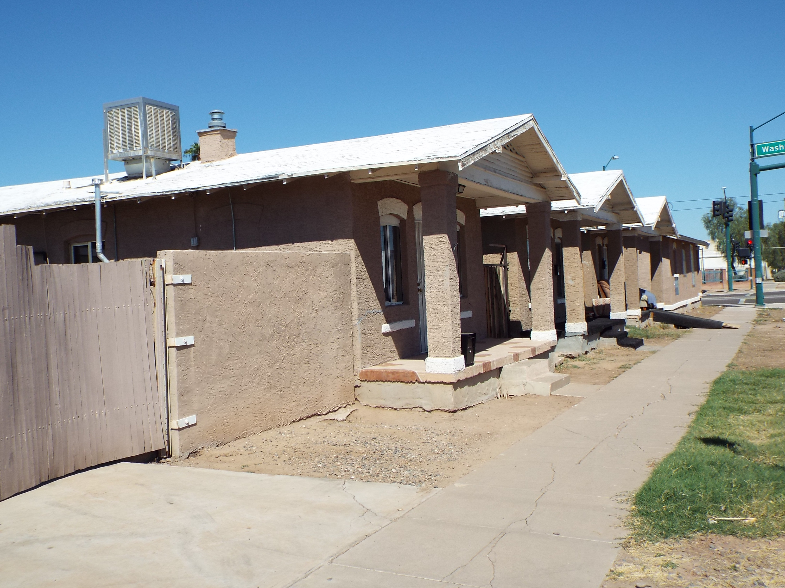 Three of the six cottages that Dr. Winston C. Hackett had built in the 1930 for his patients who were suffering from tuberculosis. They are located on 14th Ave. between East Jefferson and Washington Streets.